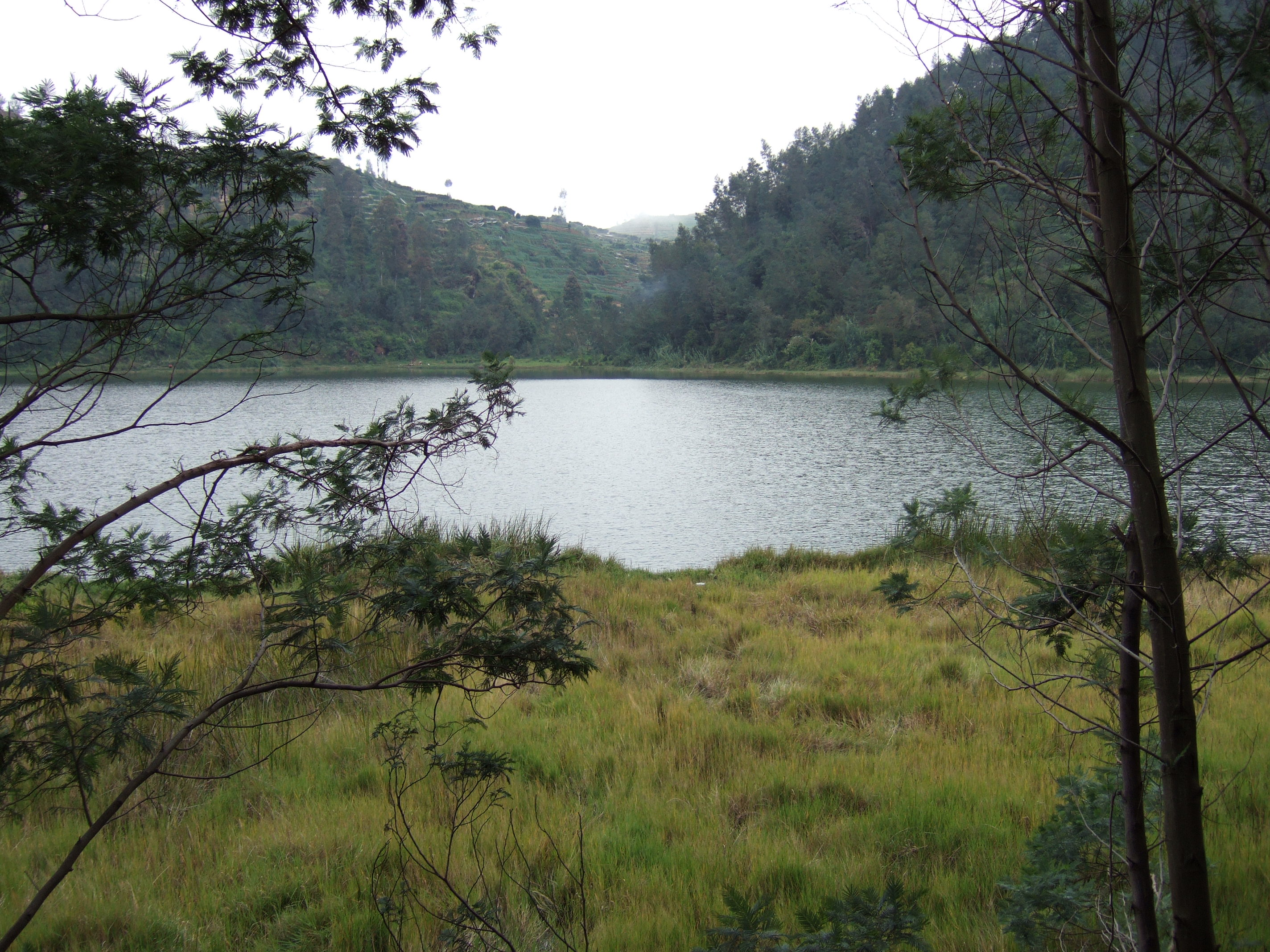 Lake Pengilon, Dieng Plateau, Central Java, Indonesia